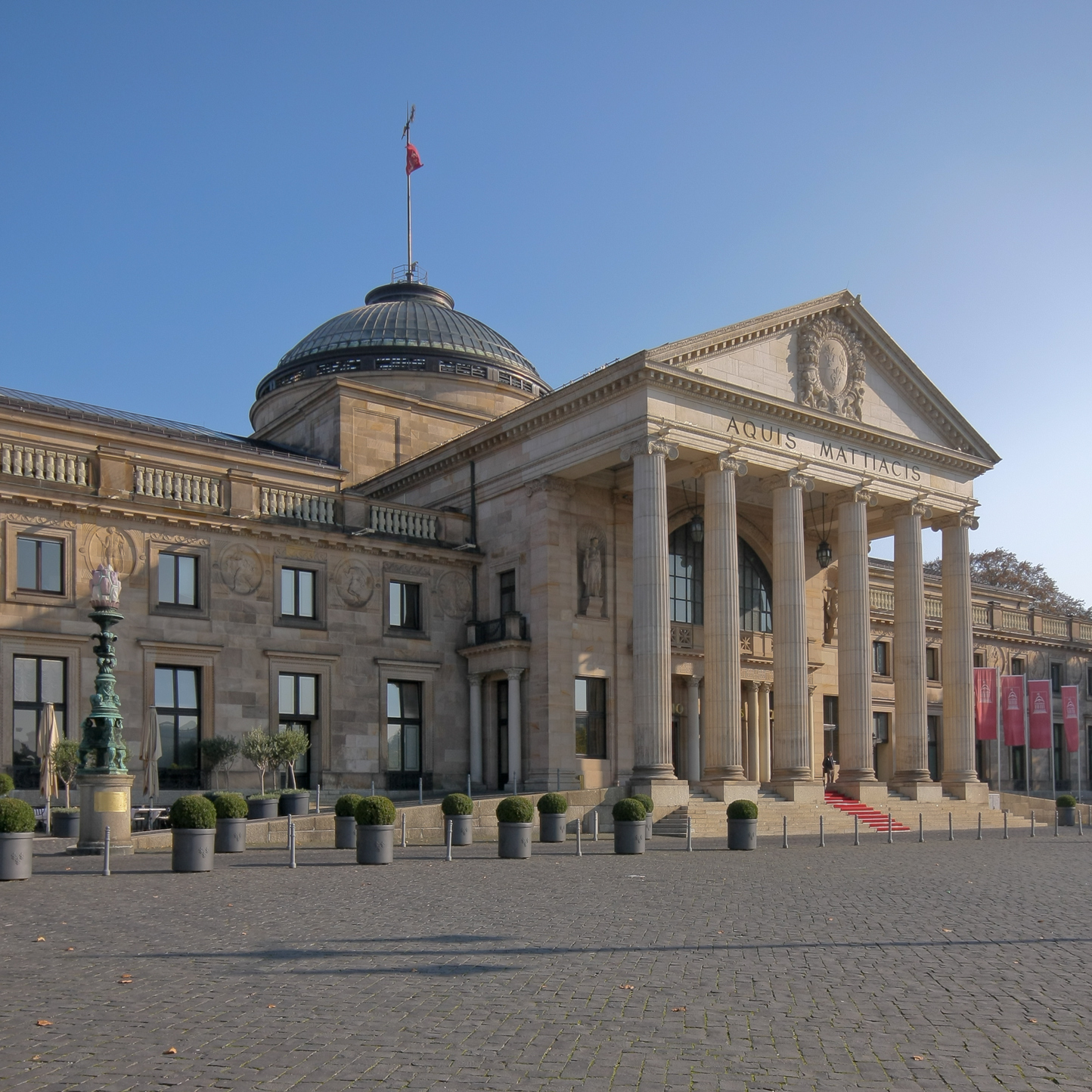 Portico of the Kurhaus in Wiesbaden, GermanyThis is a photograph of an architectural monument.